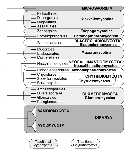 Kingdom Fungi Phylogeny Hibbett 2007